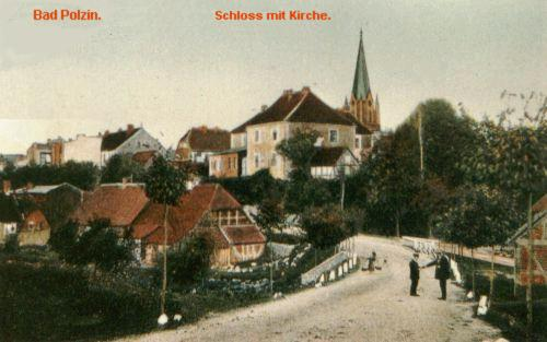 Polzin about 1900